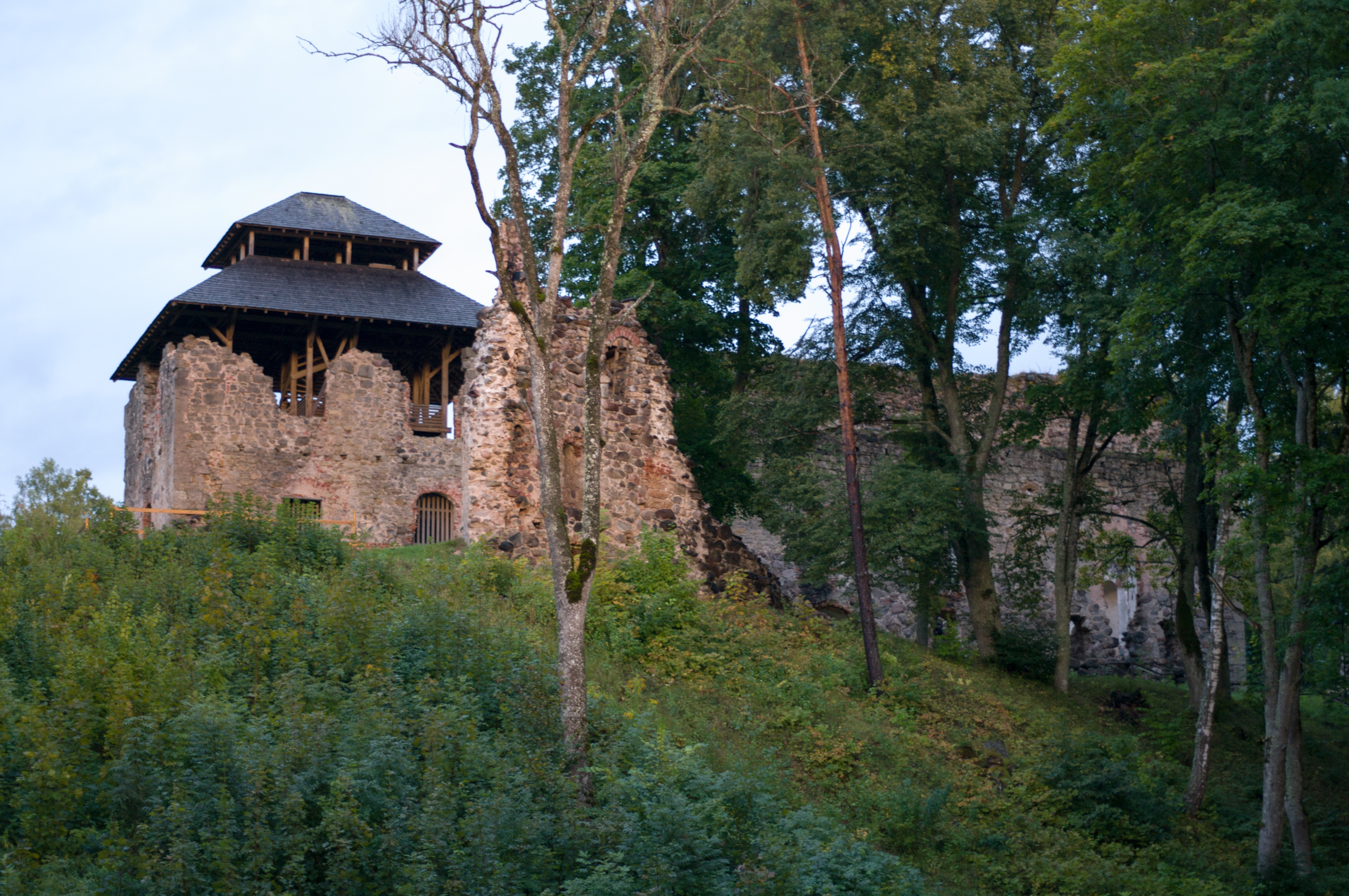 This photo was taken during a Wikiexpedition set up by Wikimedia Eesti.You can see all photographs in category WMEE-LV2013.